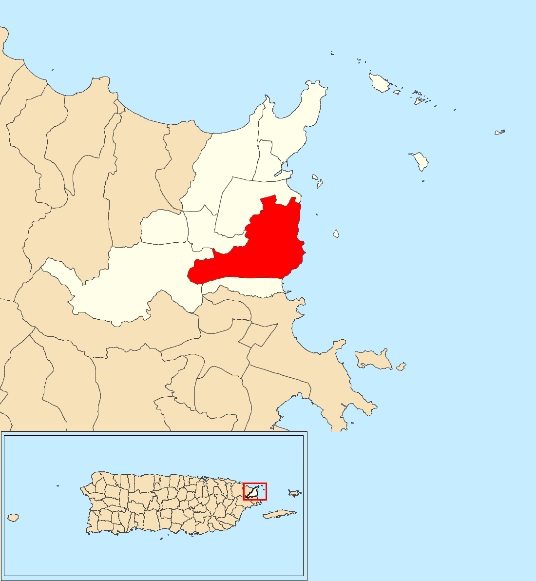 Quebrada Vueltas, Fajardo, Puerto Rico locator map